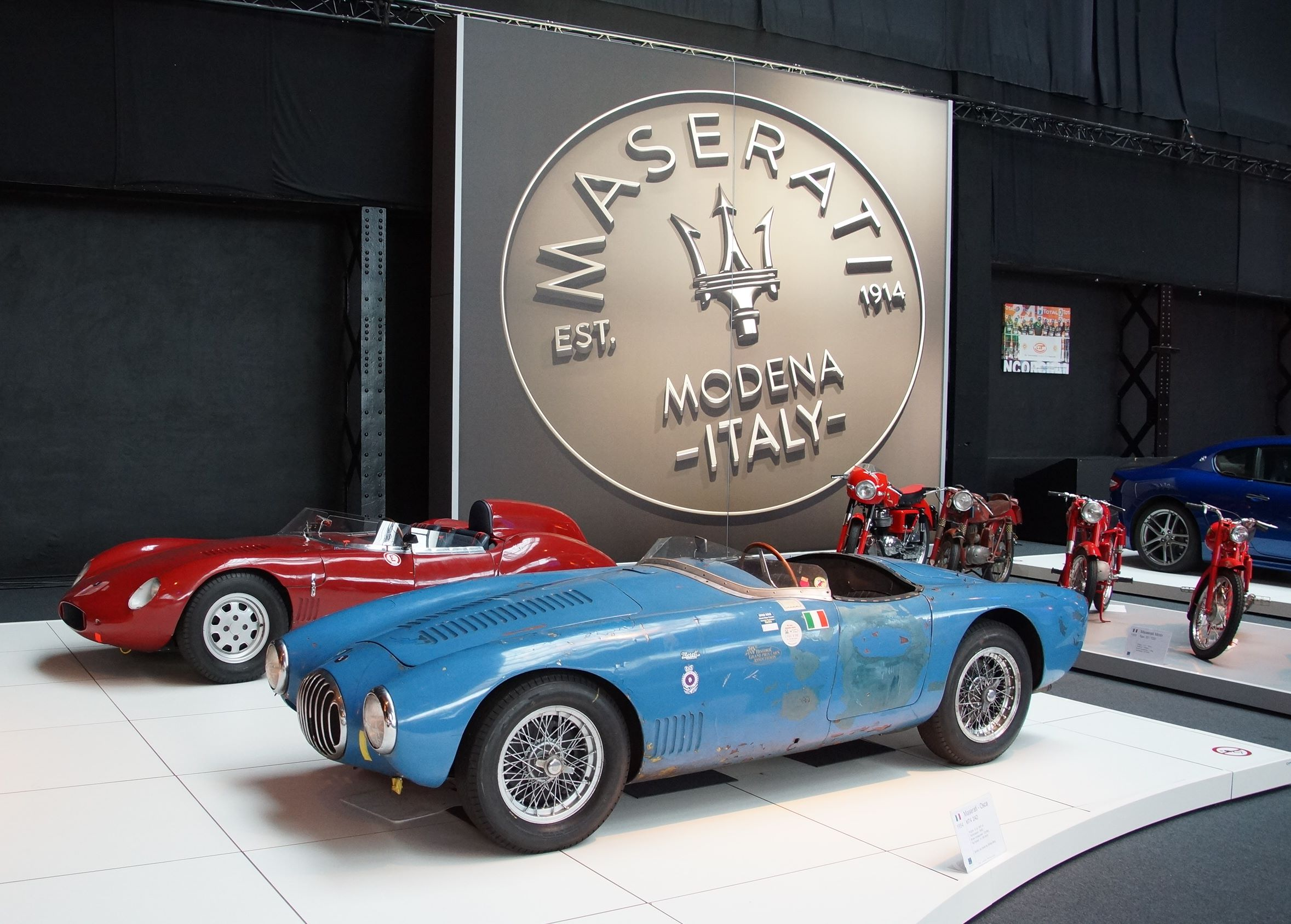 Officine Specializzate Costruzioni Automobili - Fratelli Maserati SpA